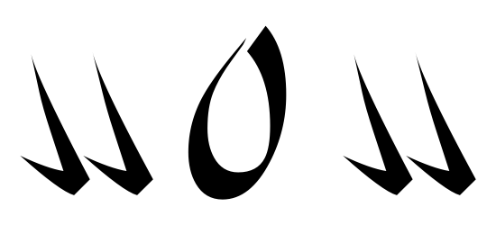 The 'pada pancak' symbol